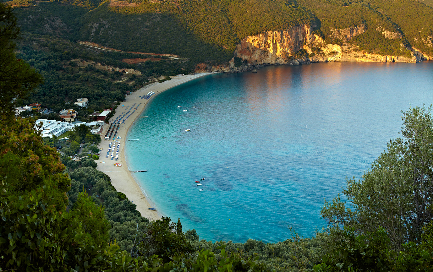 Parga Lichnos beach, Resort, Ionian Sea